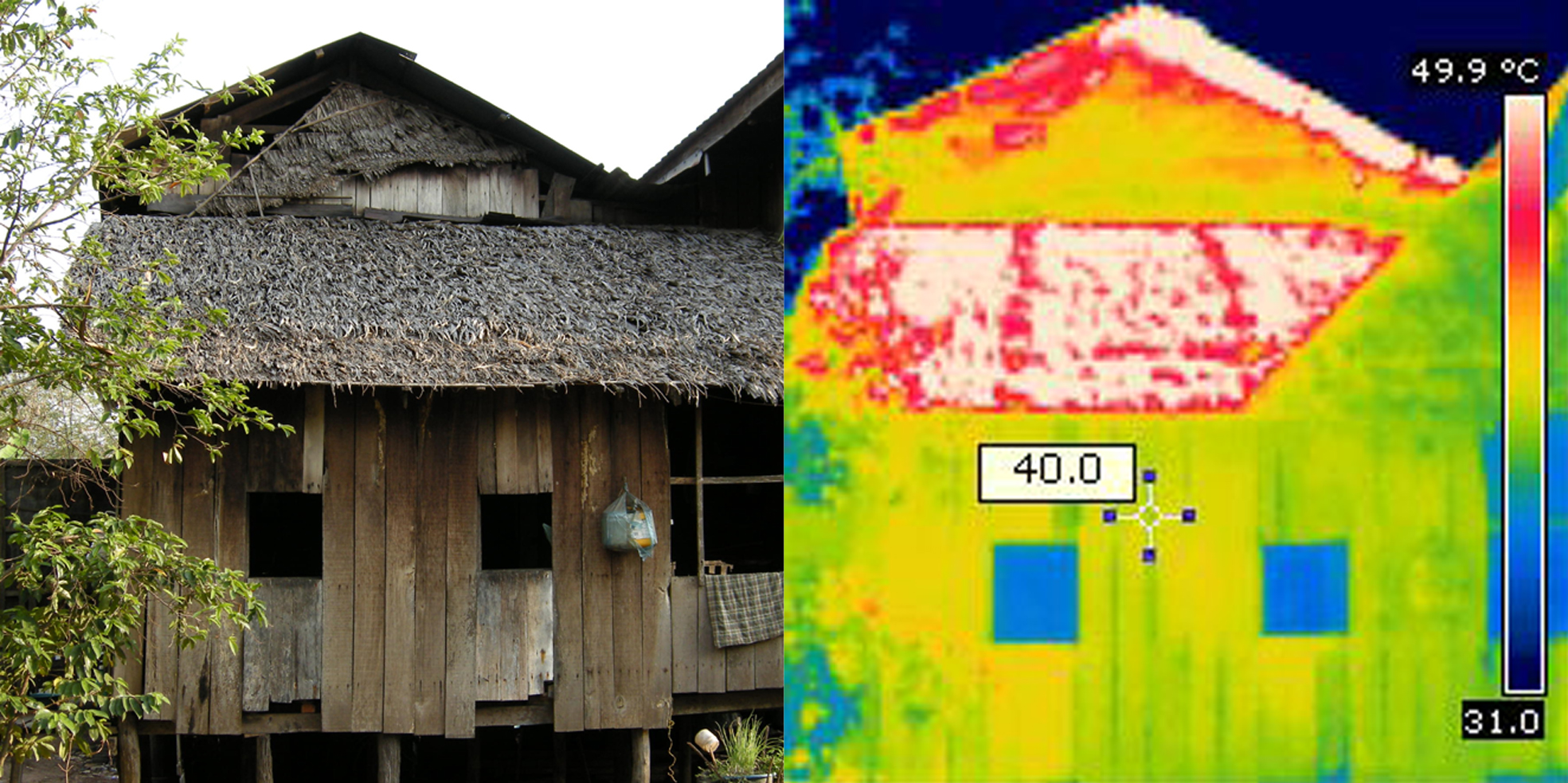 Thermal imaging Khmer houses